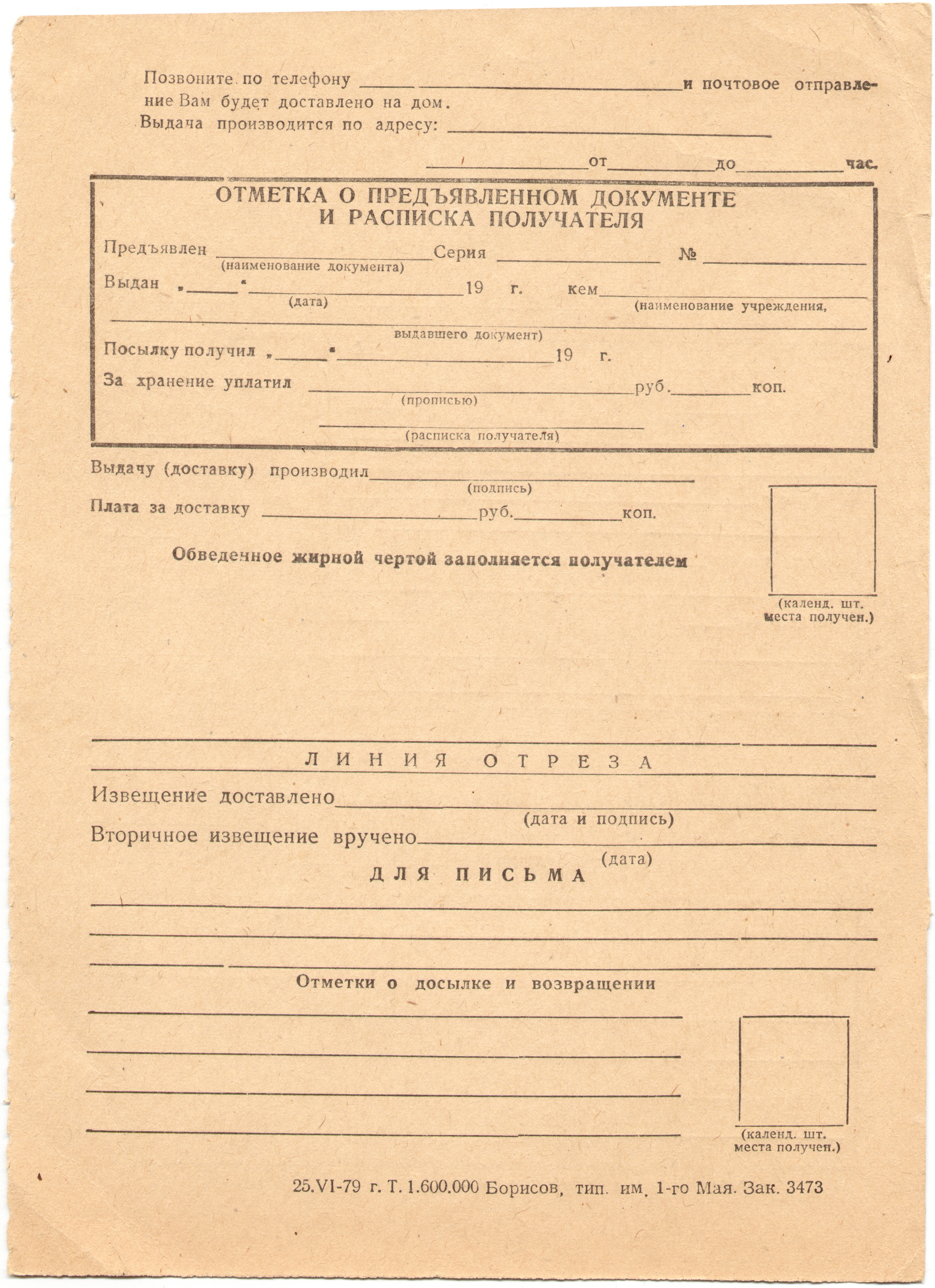 USSR Package Mailing form, Form 116, reverse side, printed in 1979.